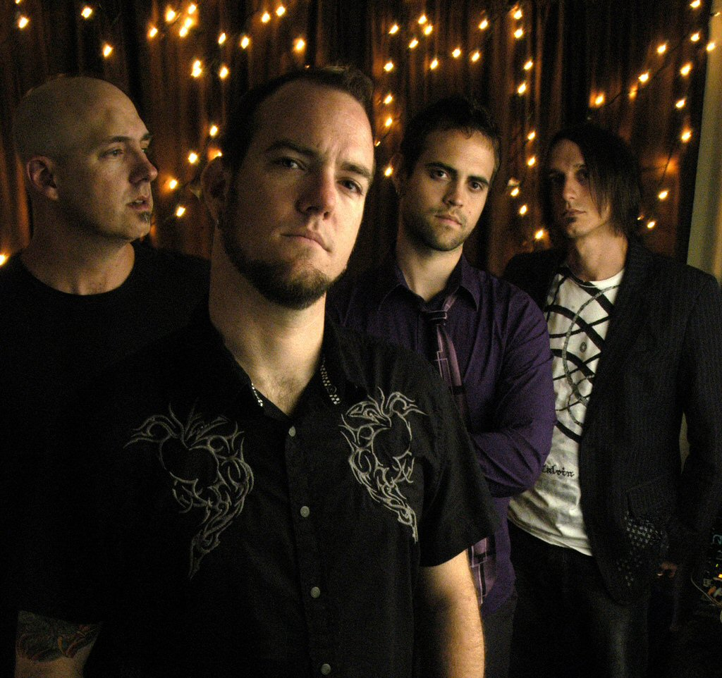 photo of the Orland rock band megaphone: Matt Bloodwell, Paul Smith, James Woodrich, Scott Smith